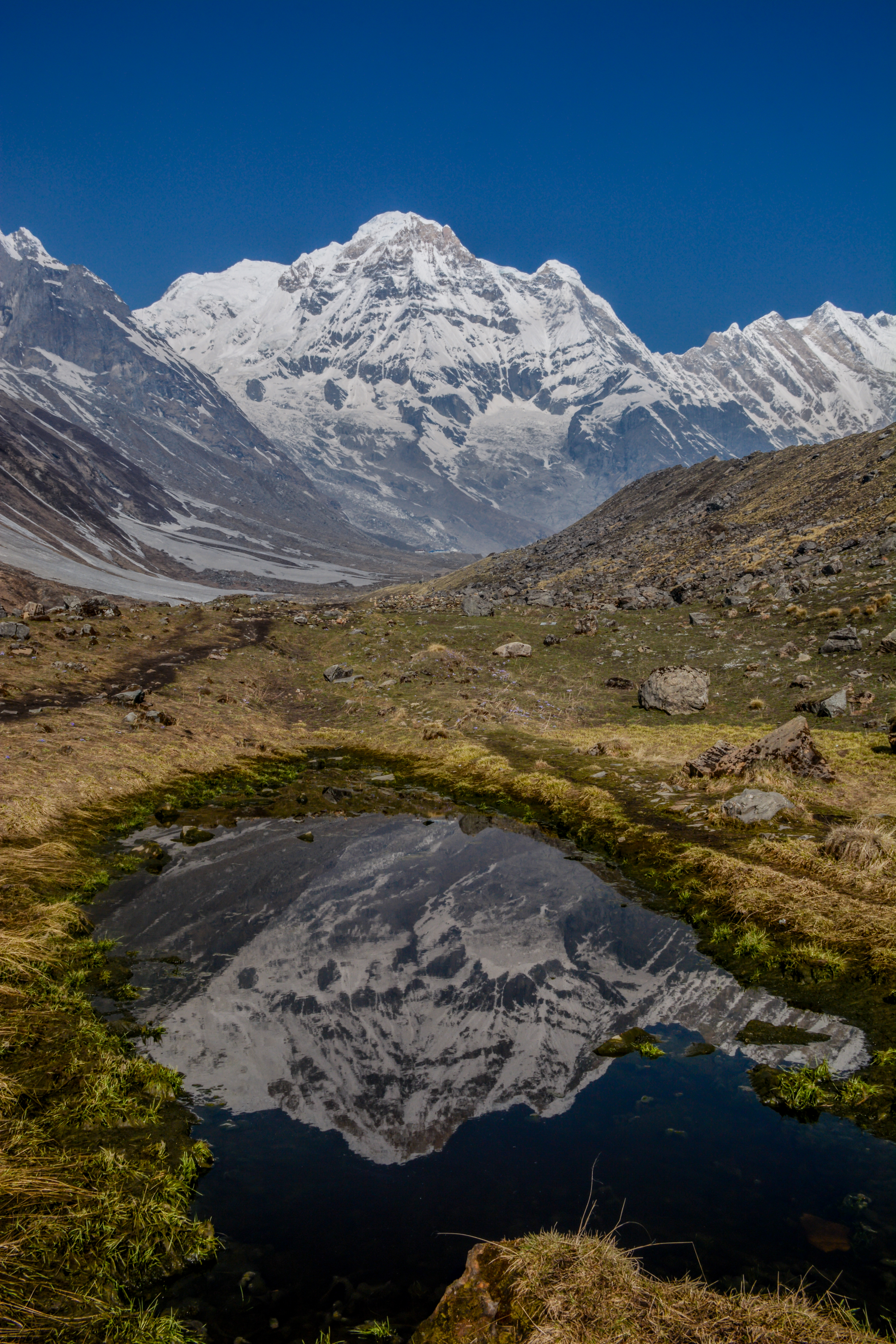 Reflection of Annapurna Mountain in fresh water on the way to Annapurna Base Camp, Annapurna Conservation Area.नेपाली: अन्नपूर्ण हिमालयको सफा पानीमा देखिएको छायामैथिली: अन्नपूर्ण हिमालयके साफ पाईनमें देखल छाया